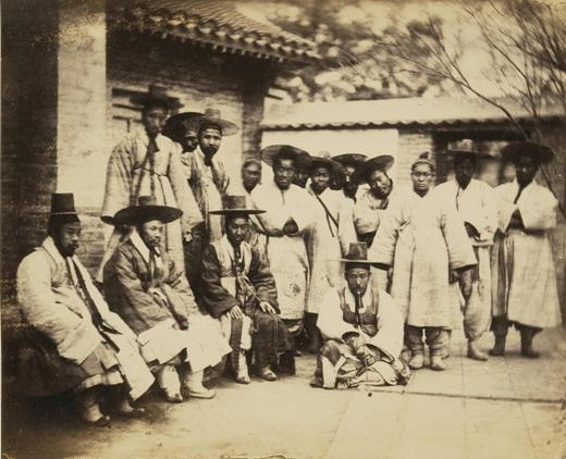 One of the oldest photographs of Korean people